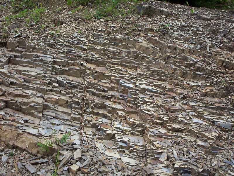 Carpathian flysch in Osława valley between Duszatyn and Prełuki, Bieszczady, Poland.